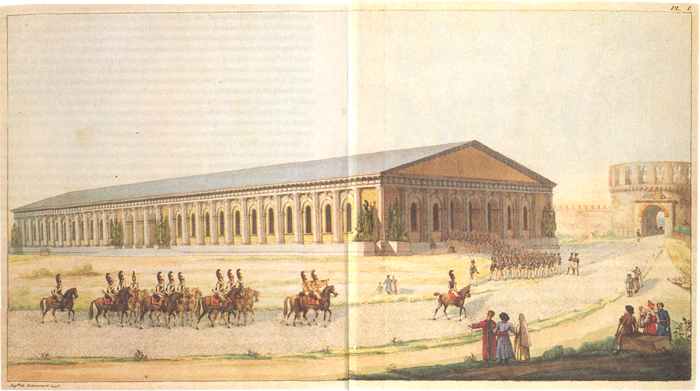 Moscow Manege. Water-colour by A.Betancourt